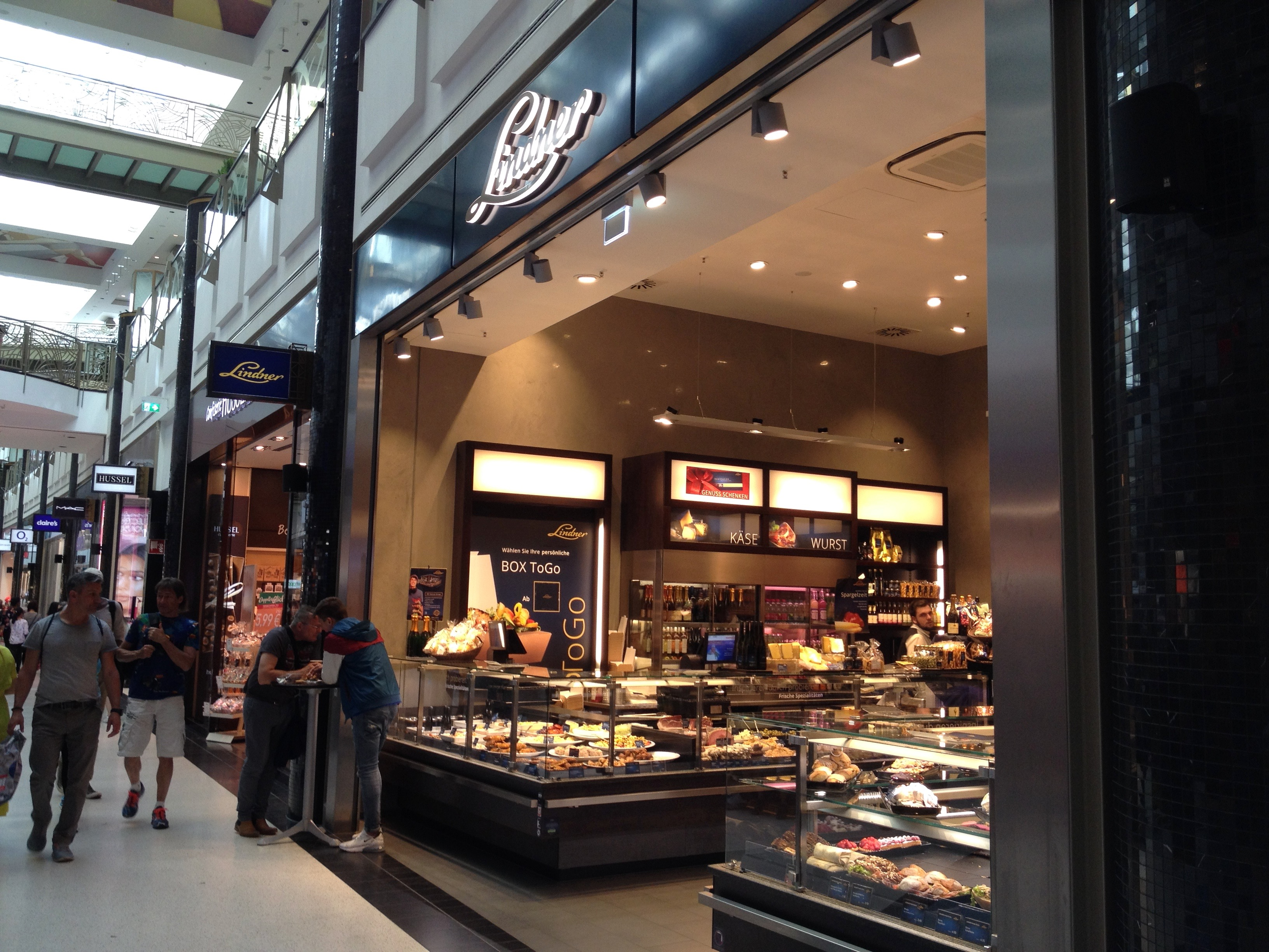 Delicatessen Branch Lindner at Berlin - Alexanderplatz Alexa Mall